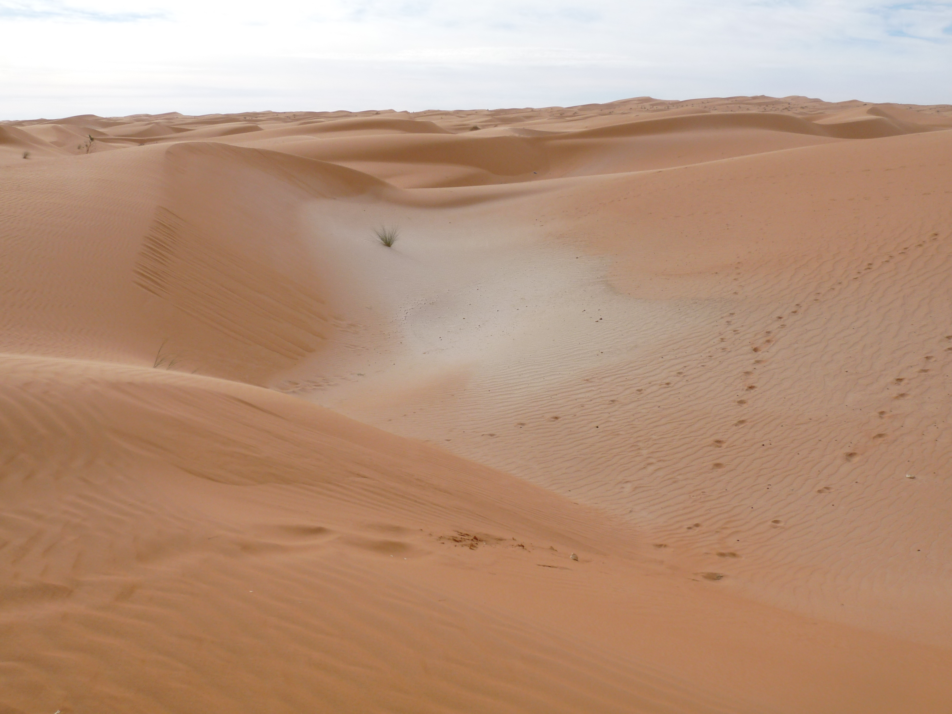 Sands of Adrar (Mauritania)